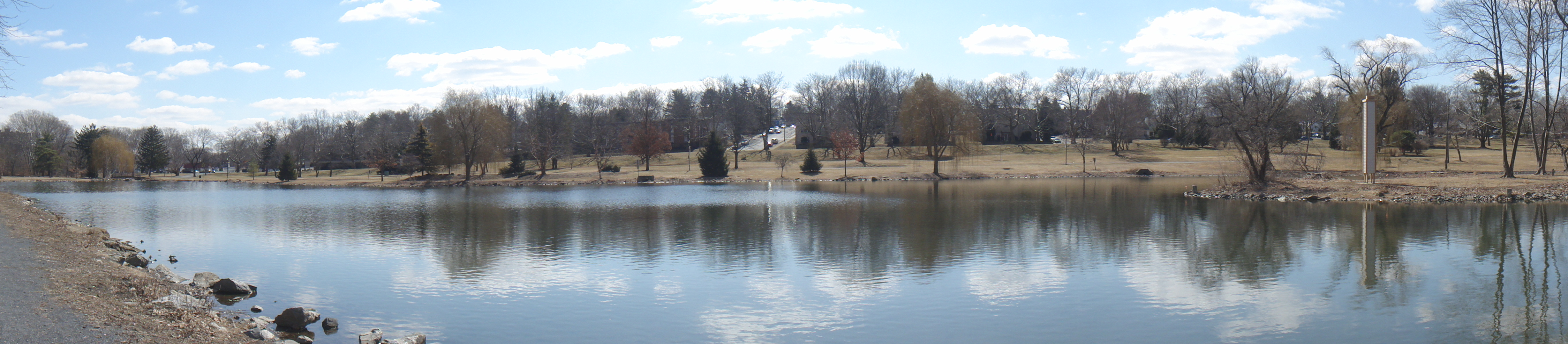 Lake Muhlenberg, Cedar Creek Park located in Allentown, PA.